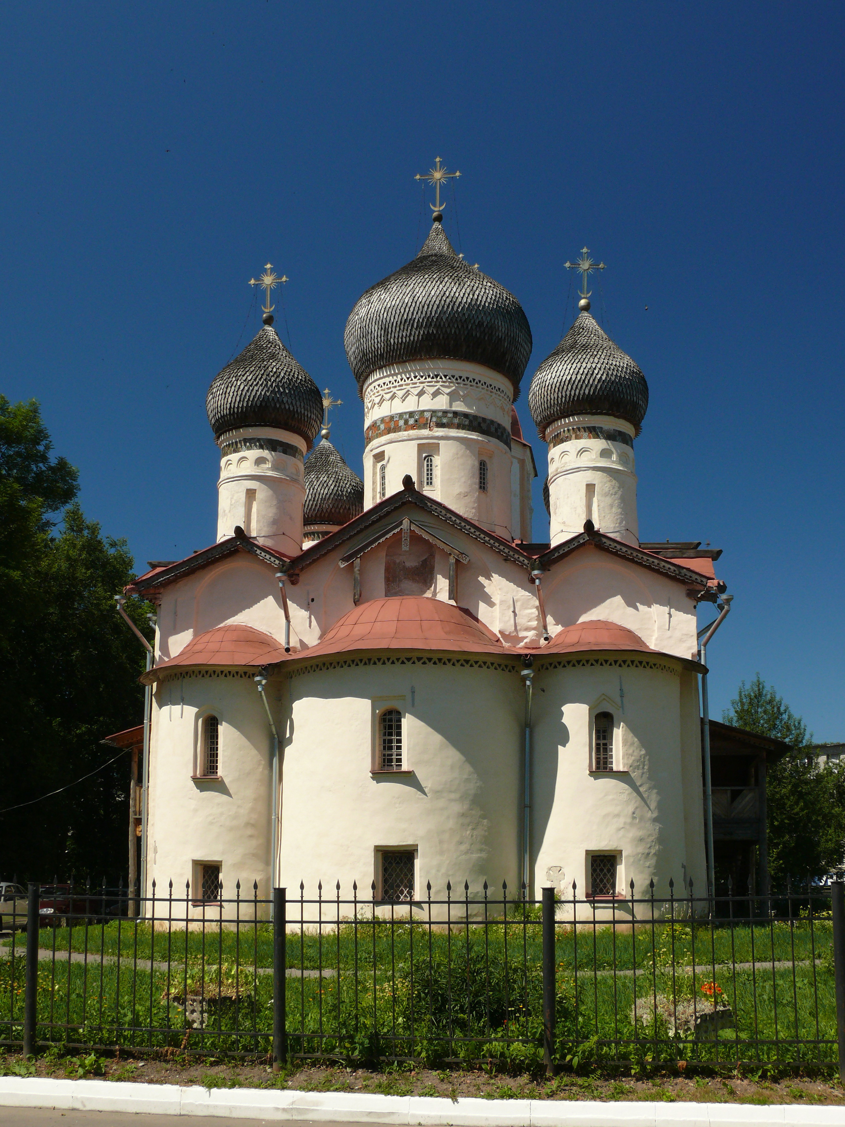 The Theodor the Stratilat churche on Shirkova street in Veliky Novgorod, Russia. View from the east site